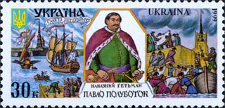 Stamp of Ukraine